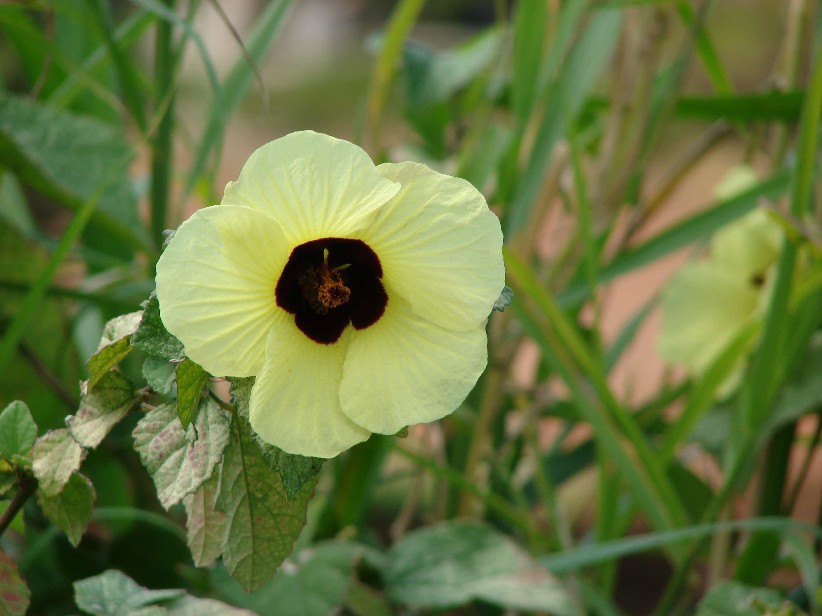 Hibiscus ovalifolius (flower). Location: Maui, Lahainaluna